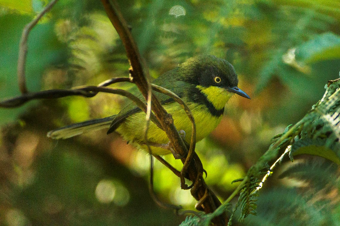 Yellow-throated Apalis - Malawi_S4E4174